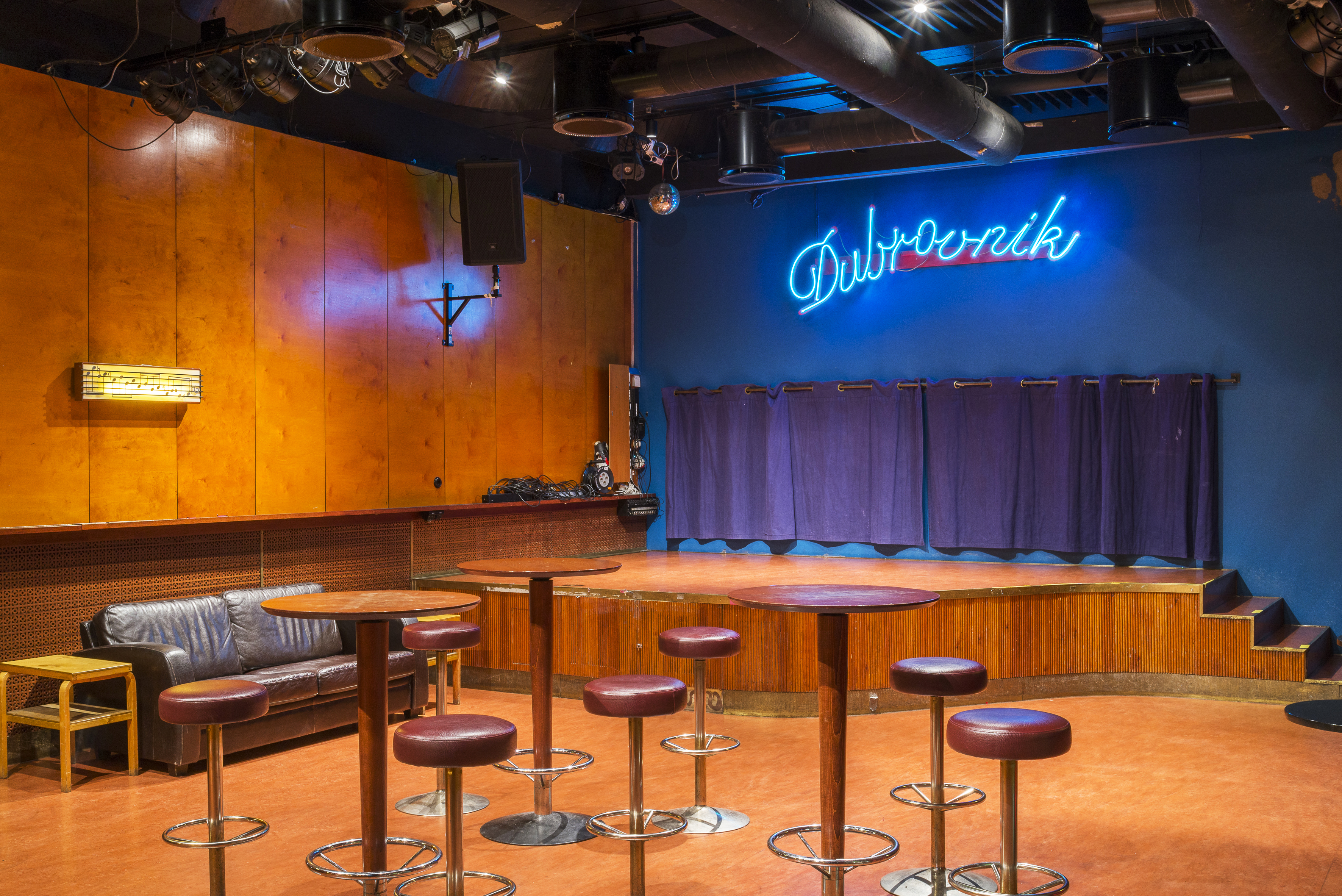 Dubrovnik Lounge & Lobby